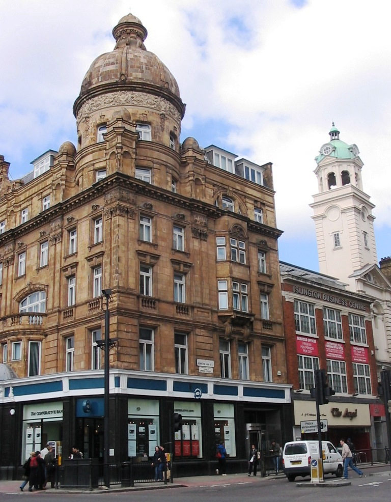 The Angel, Islington. Photographed by user:Skyring April 2005